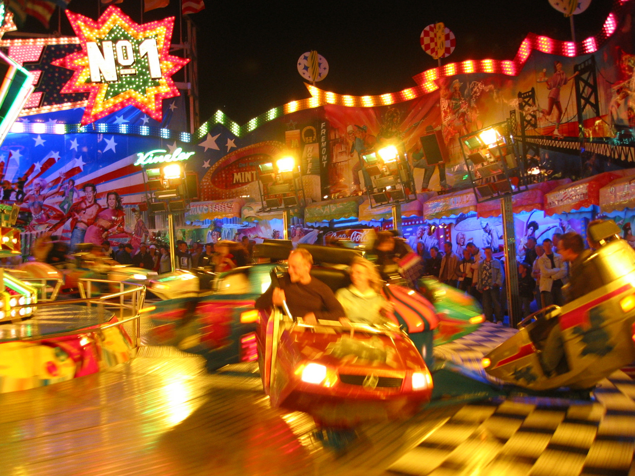 A Breakdance at night. Author: User:Boris23 Date: 5. August 2005